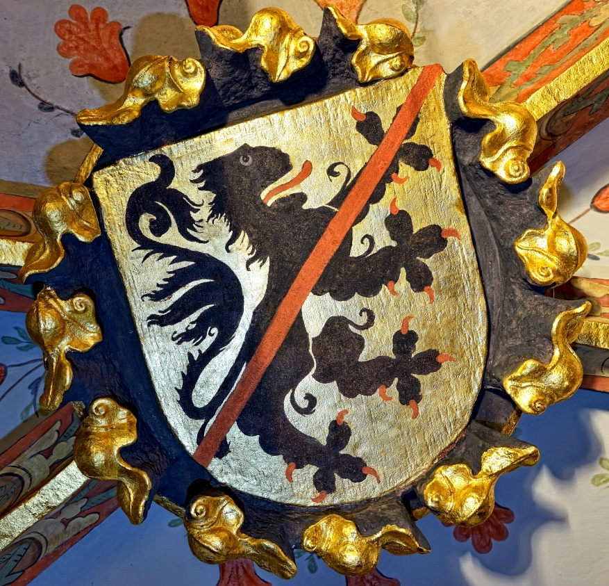 Wappen der Grafschaft Namur, Stiftskirche Neustadt an der Weinstraße (Gewölbeschlussstein, ev. Teil)